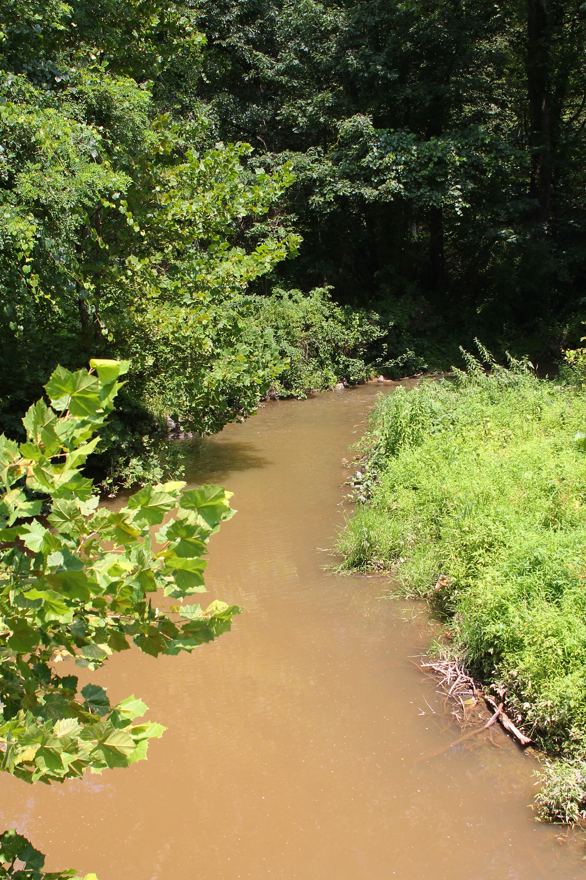 Lithia Springs Creek looking upstream in its lower reaches